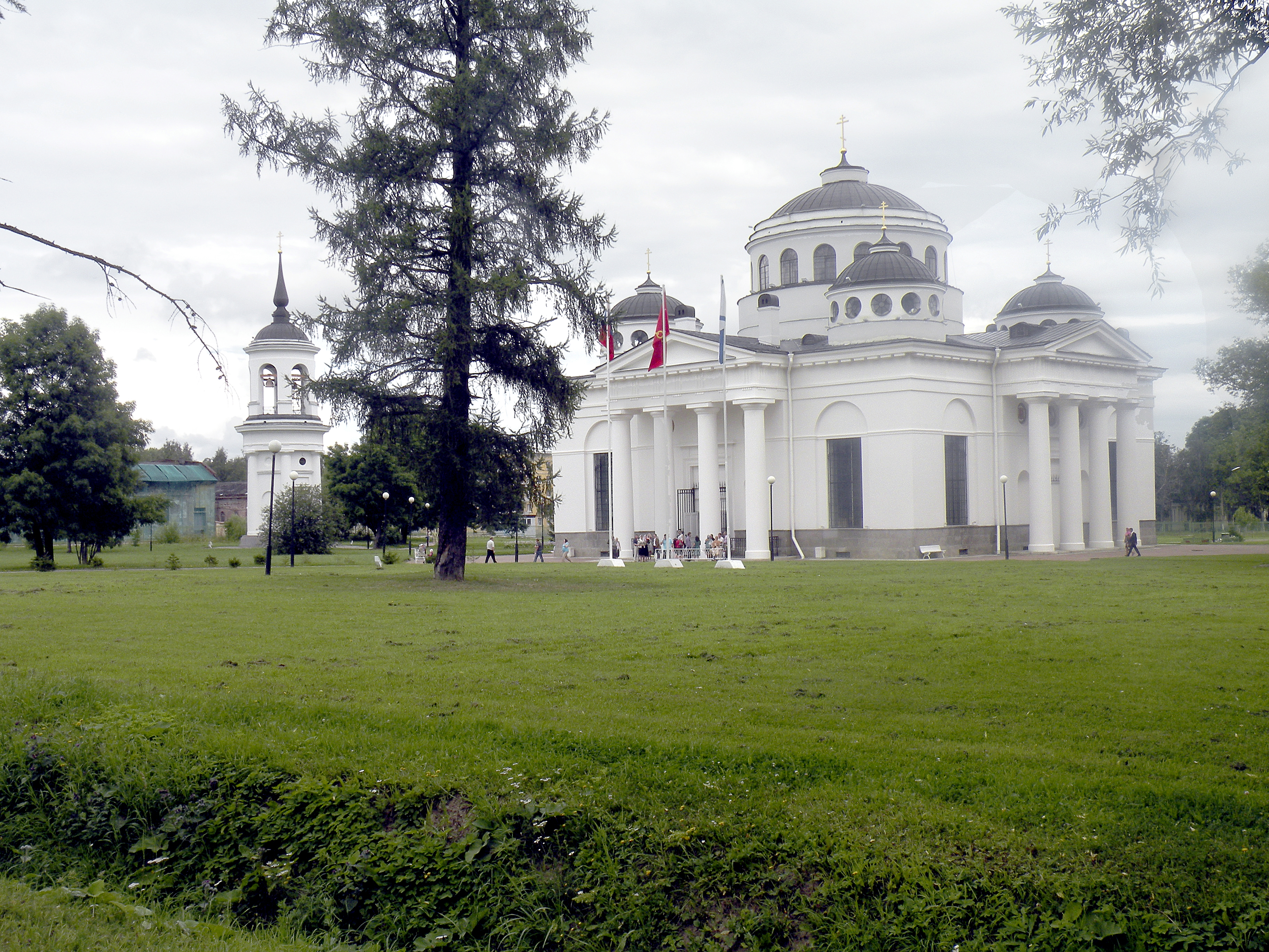 The Saint Sophia (Ascension) Cathedral in Tsarskoye Selo, Pushkin, Russia.